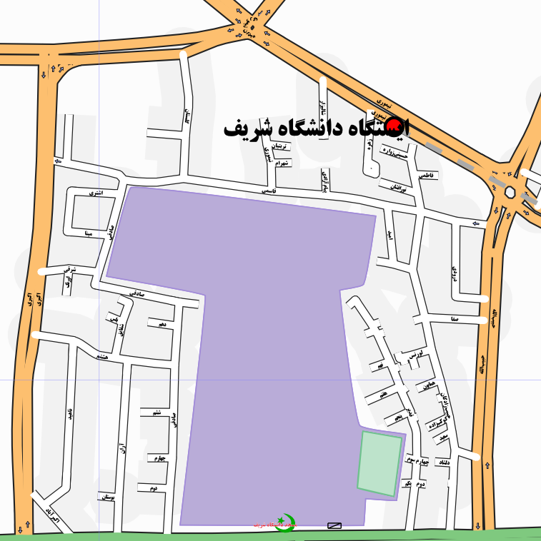 Map of area surrounding Sharif University of Technology with Persian labels